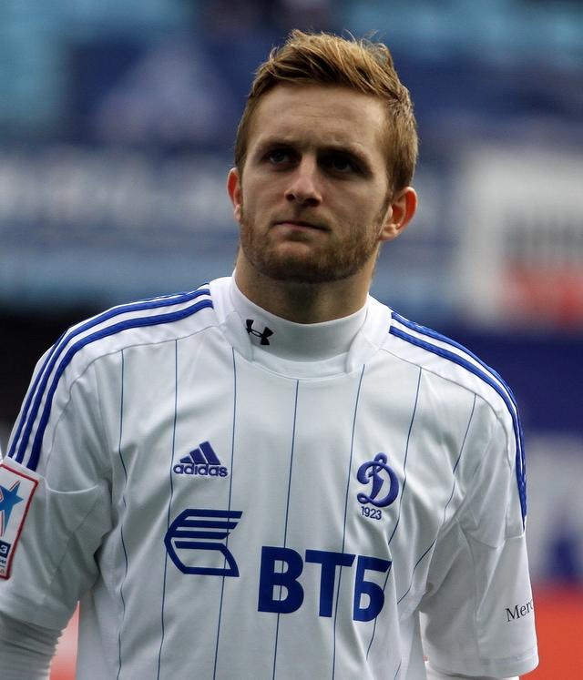 Jakob Jantscher playing for FC Dynamo Moscow in 2012.